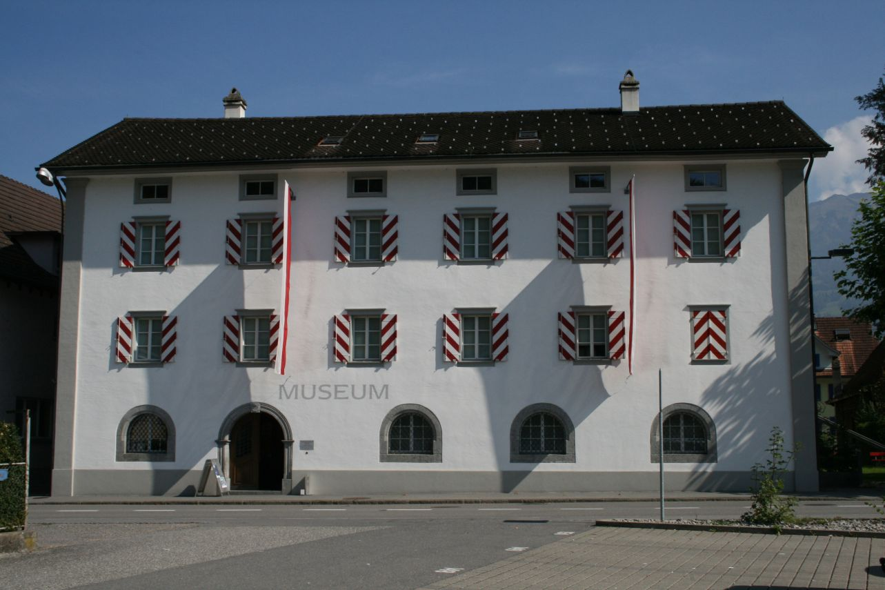 Historical museum of Obwalden, in Sarnen, canton Obwalden, Switzerland